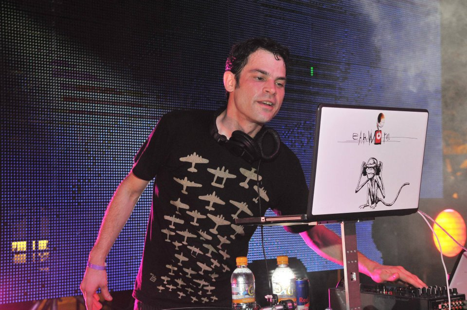 DJ Earworm at the NYE Siloso Beach Party, Sentosa, Singapore 2009-12-31